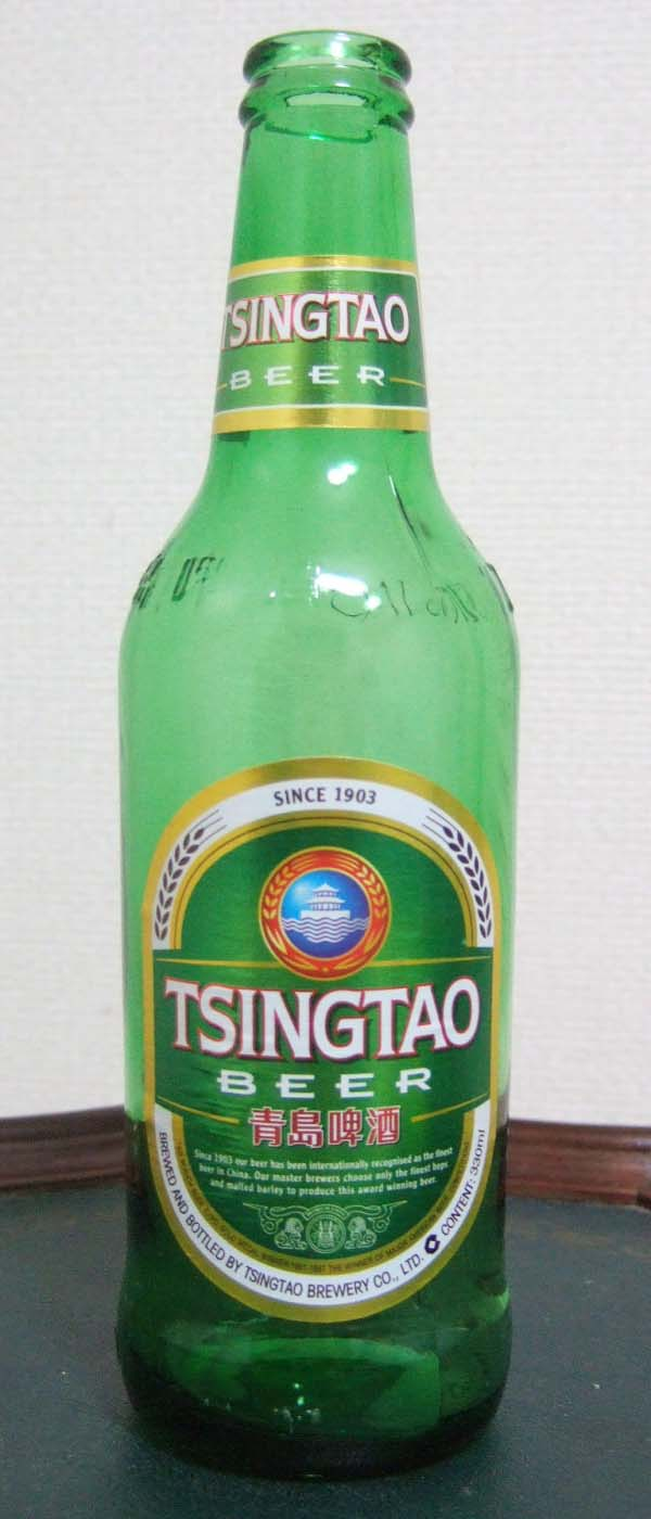 Tsingtao beer bottle.